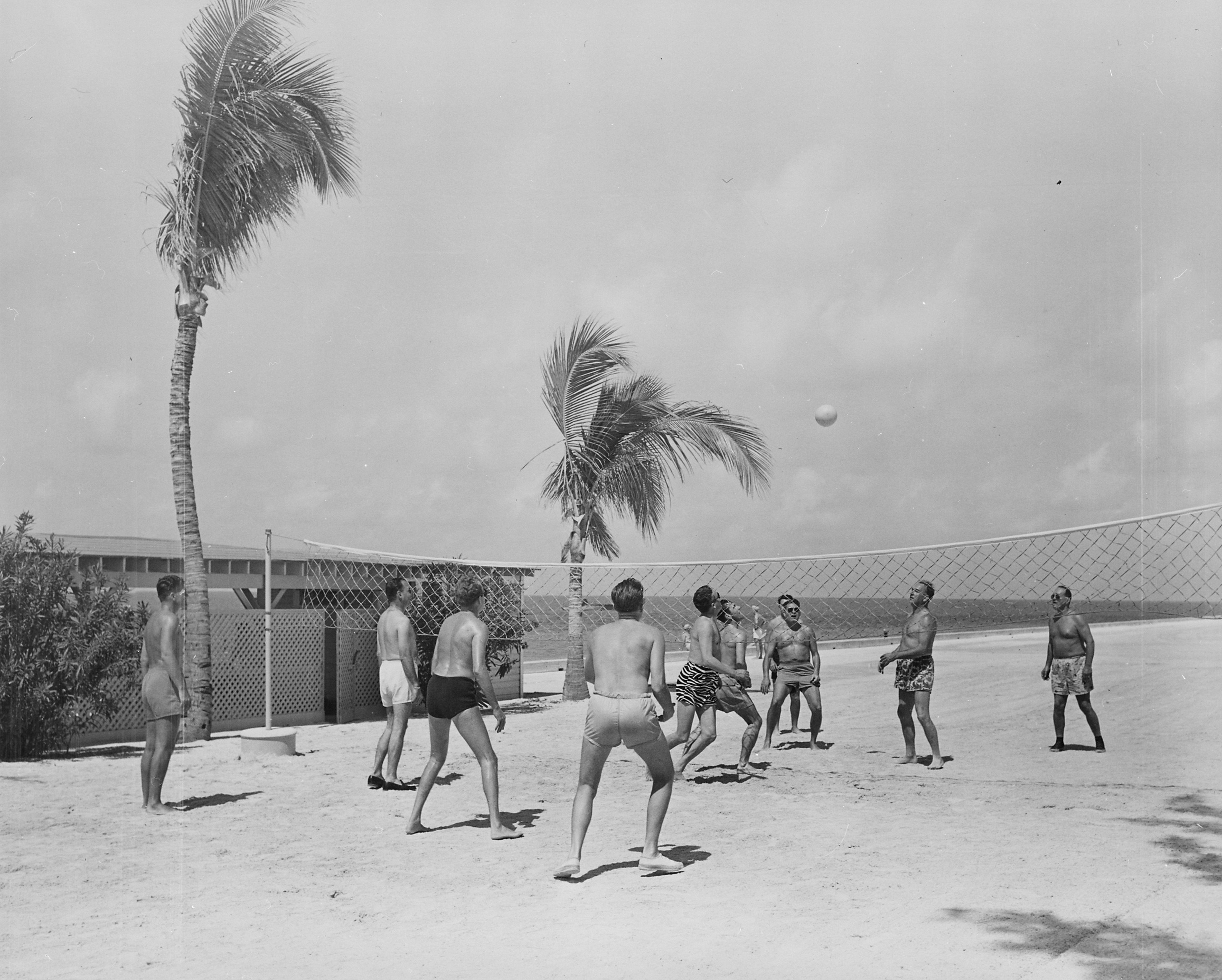 Volley ball at Truman Beach, while President Harry S. Truman was on vacation in Key West, Florida. From left to right: Mr. Gerald A. Behn, Rear Admiral Robert L. Dennison, Mr. Clark M. Clifford, Commander Horace D. Warden, Mr. Stanley Woodward, Lieutenant Hoye D. Moore, Mr. Rex Scouten (partly obscured by Mr. Rowley), Mr. James J. Rowley, Mr. Henry J. Nicholson, and Major General Harry H. Vaughan.